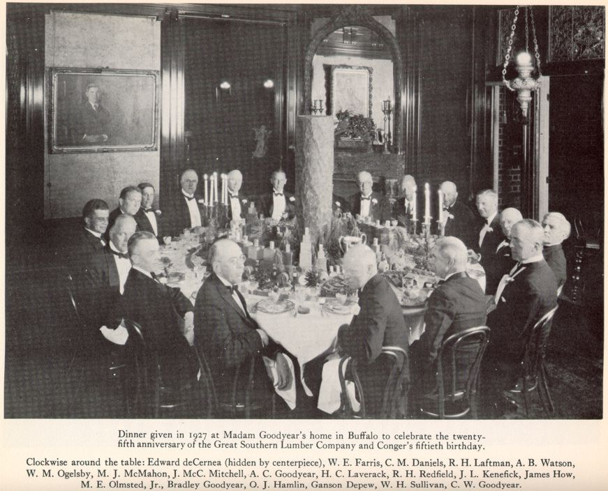 Dinner given at Goodyear House to celebrate the 25th anniversary of the Great Southern Lumber Company and Conger's fiftieth birthday.